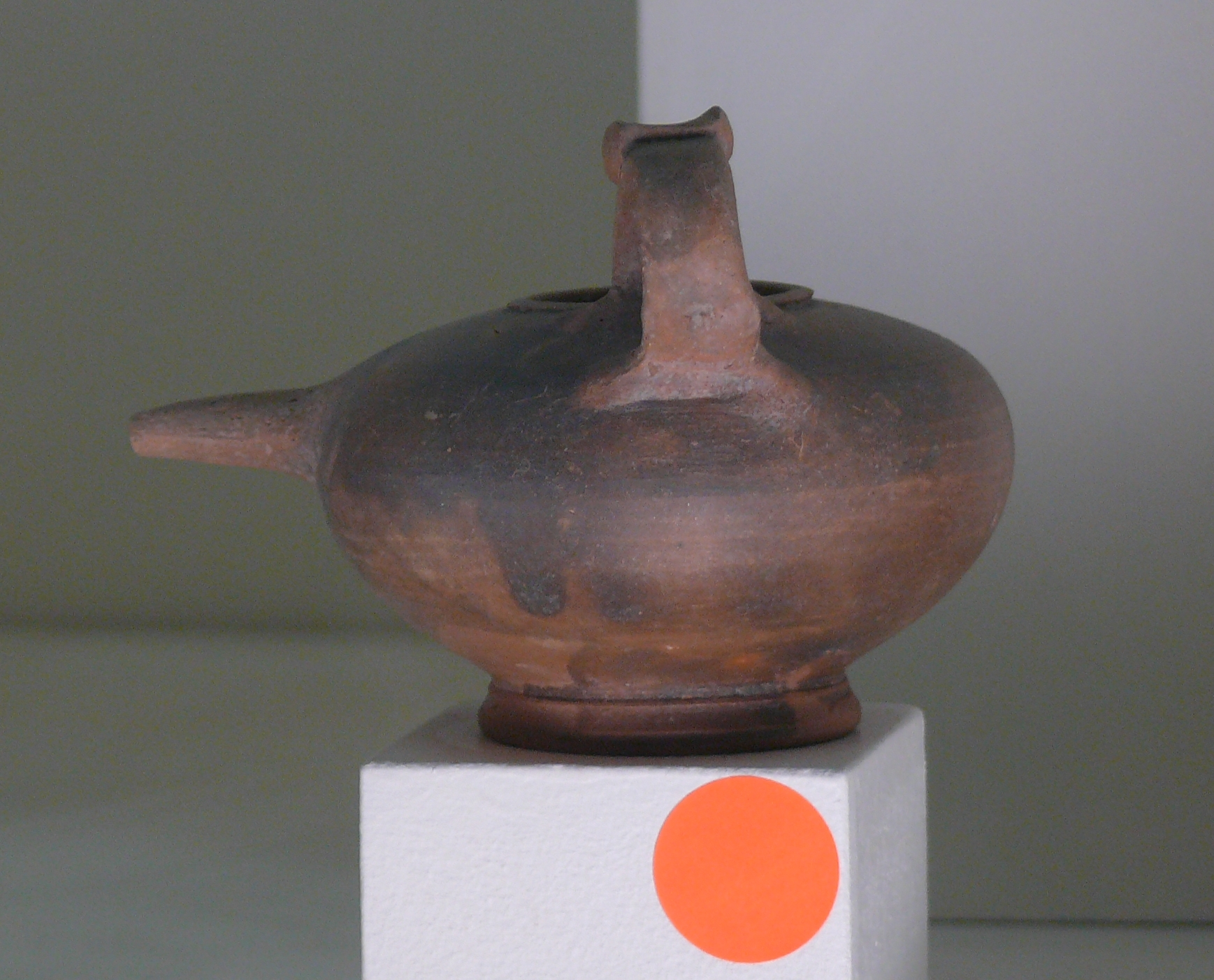 Ancient Greek baby feeding bottle in the Antalya Archeological Museum.